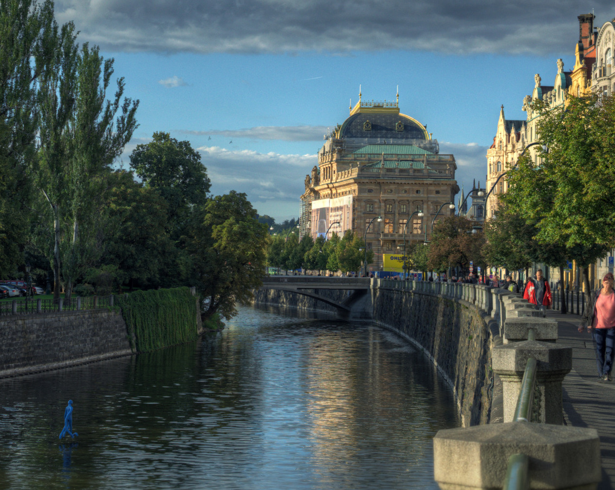 Nardoni Divadlo